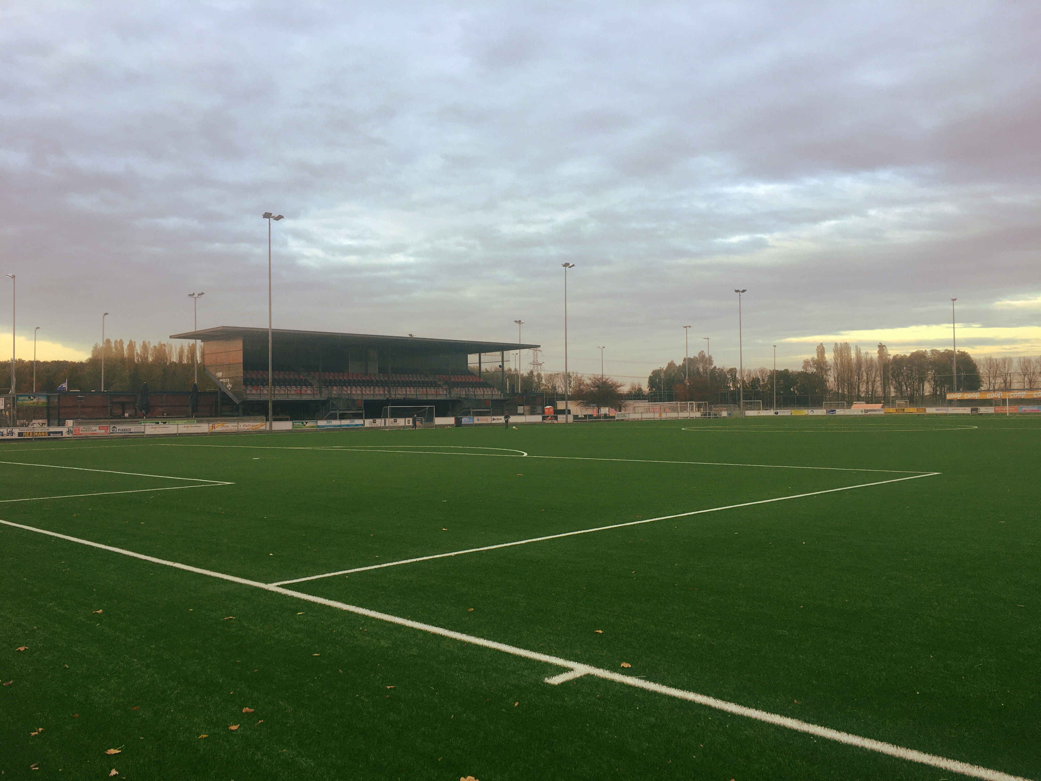 Sportclub Bemmel, Sportpark Ressen